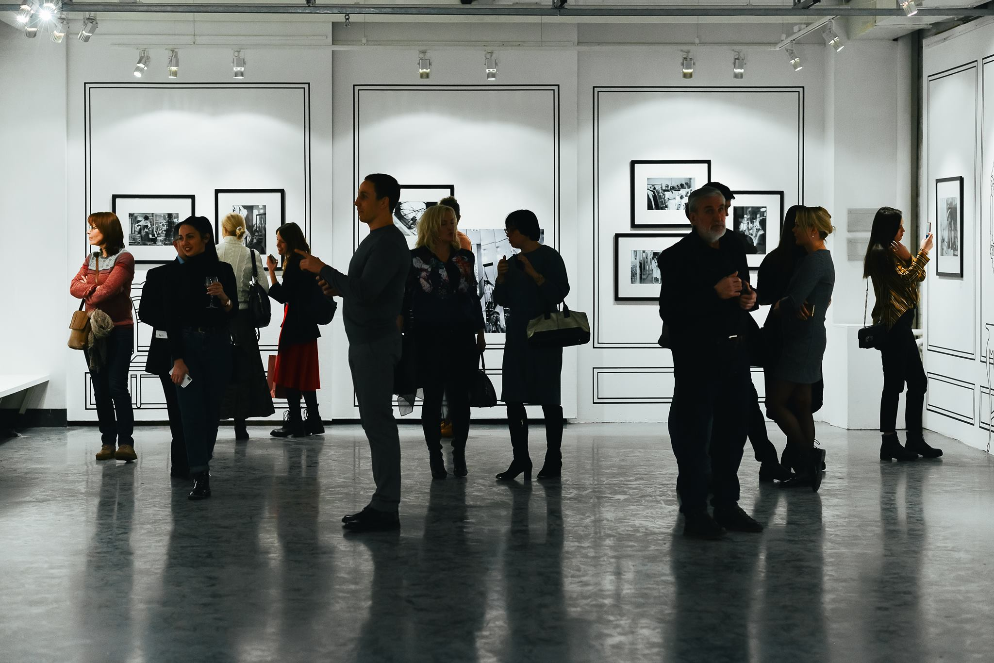 Opening 2018